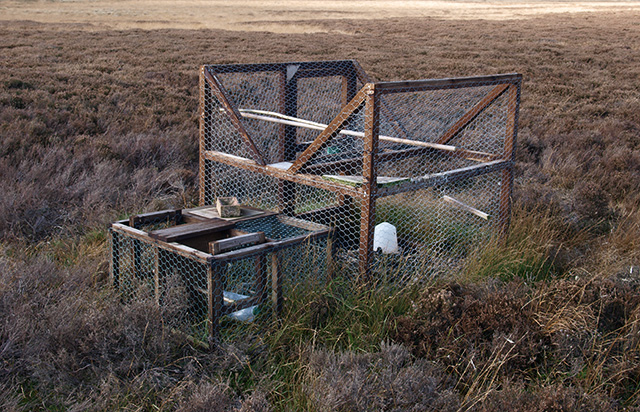 Larsen trap An informative sign on the trap reads: This is a Larsen trap. Please do not disturb. The North York Moors are designated a Special Protection Area for their nationally and internationally important bird populations of merlin and golden plover and are home to significant populations of curlew, snipe, lapwing and red grouse. Larsen traps are used to capture crow, magpie, jackdaw, jay and rook, which eat other birds' eggs and chicks. The legal control of predators is well recognised as an important conservation measure. A live decoy bird is used to attract similar birds which are then killed humanely. The decoy bird is provided with food, water and shelter within the trap. Larsen traps are legal under the Wildlife and Countryside Act. Thank you.